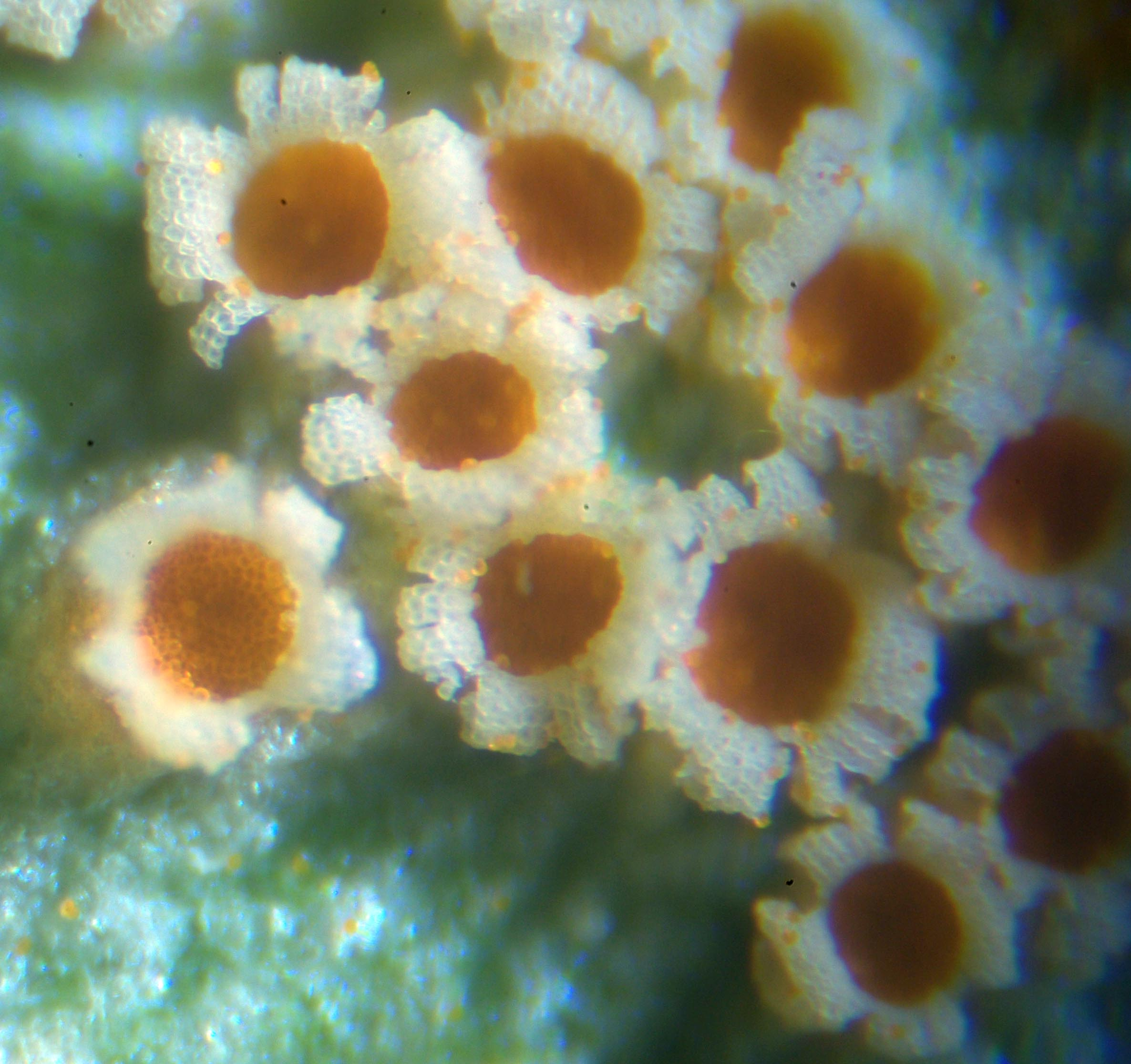 Close up of aecidia of Puccinia sessilis on Arum maculatum leaf